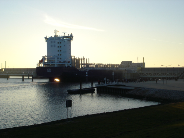 new container ship "Eilbek" passing the Ems-Barrier at Gandersum (River Ems), East Frisia, Lower Saxony